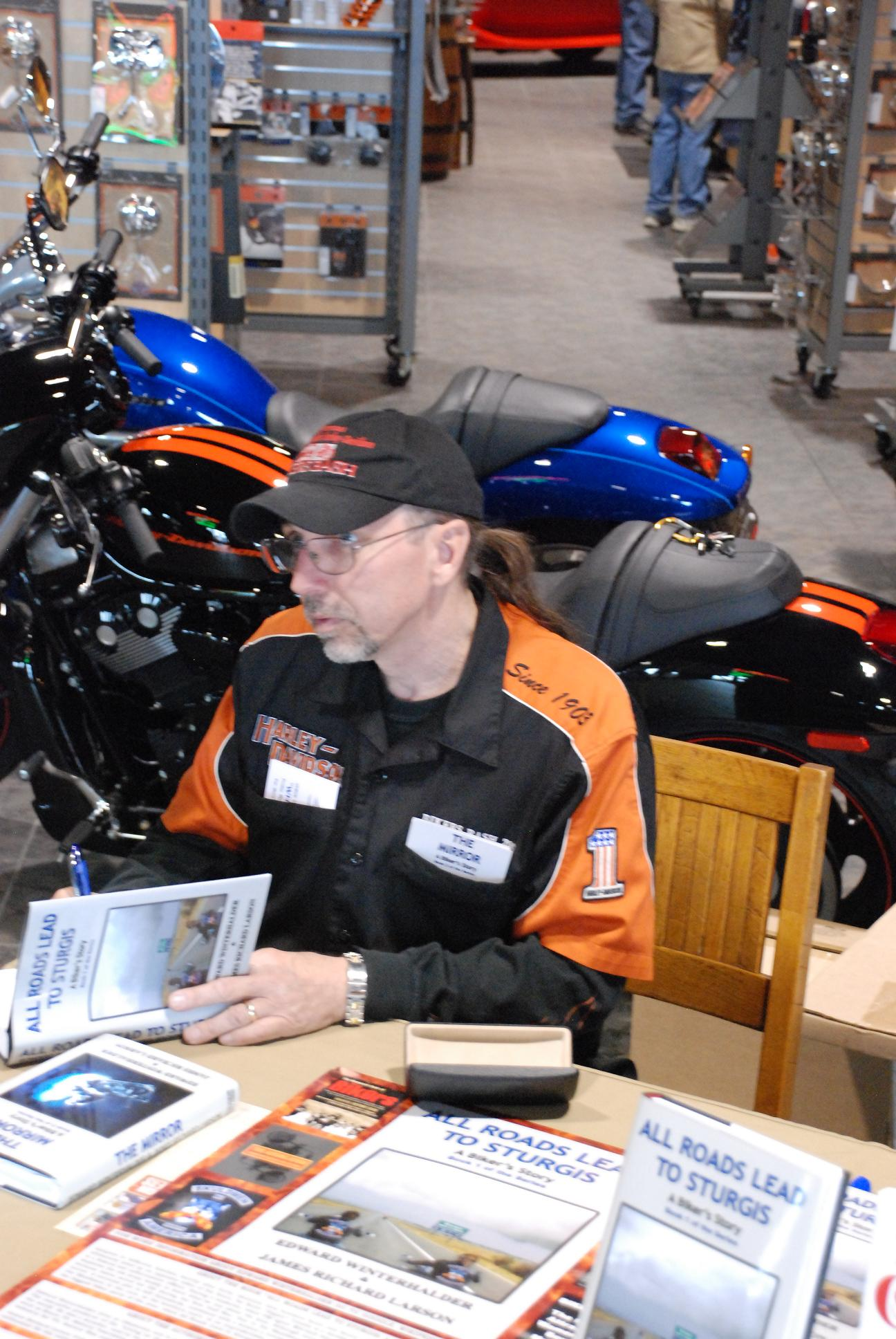 A photo of author Edward Winterhalder at a book signing in Lansing MI; taken by Dara Taylor on 4-17-10 and released into the public domain.